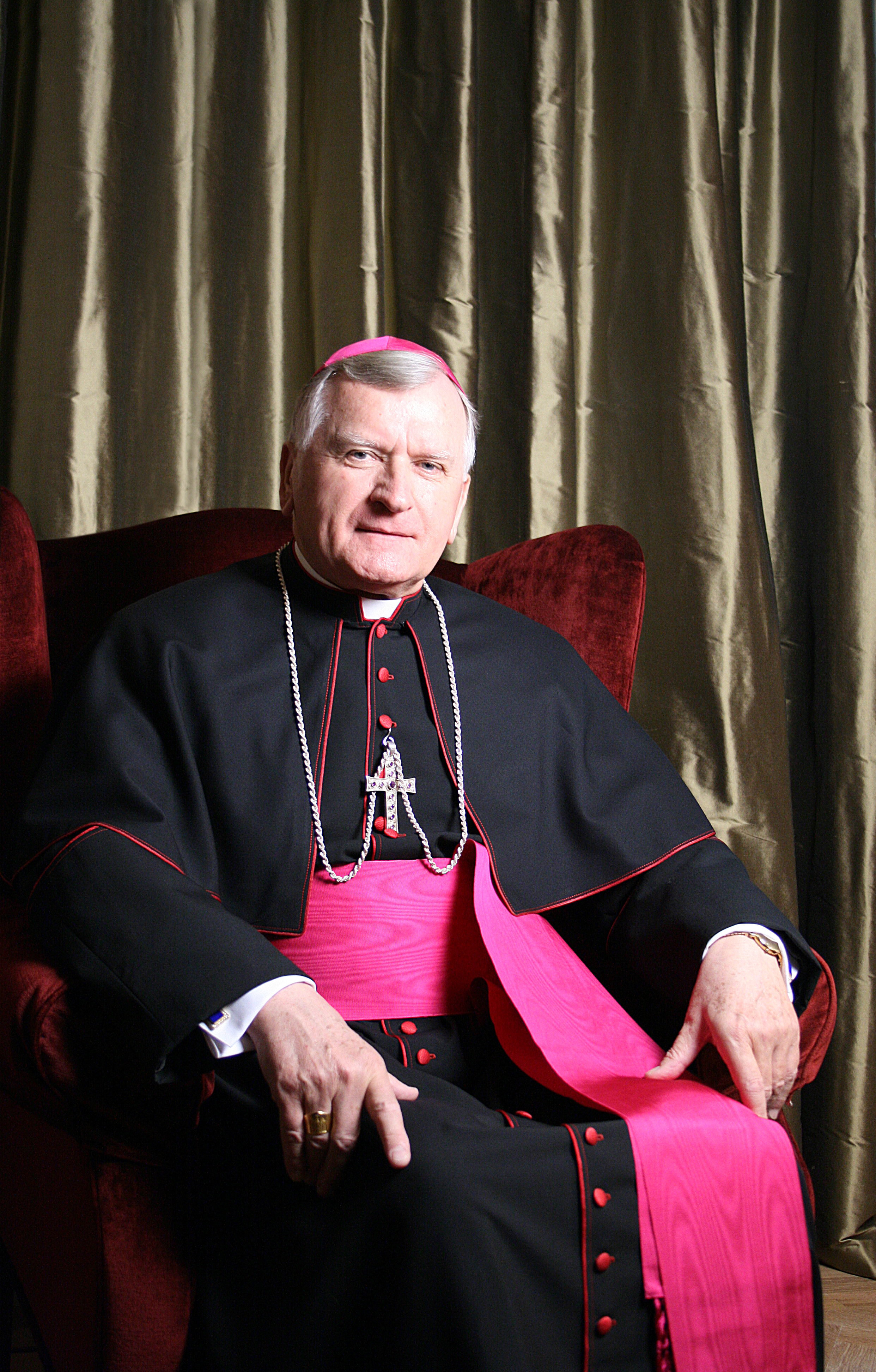 Archbishop Henryk Józef Nowacki, Apostolic Nuncio to the Nordic countries from 2012